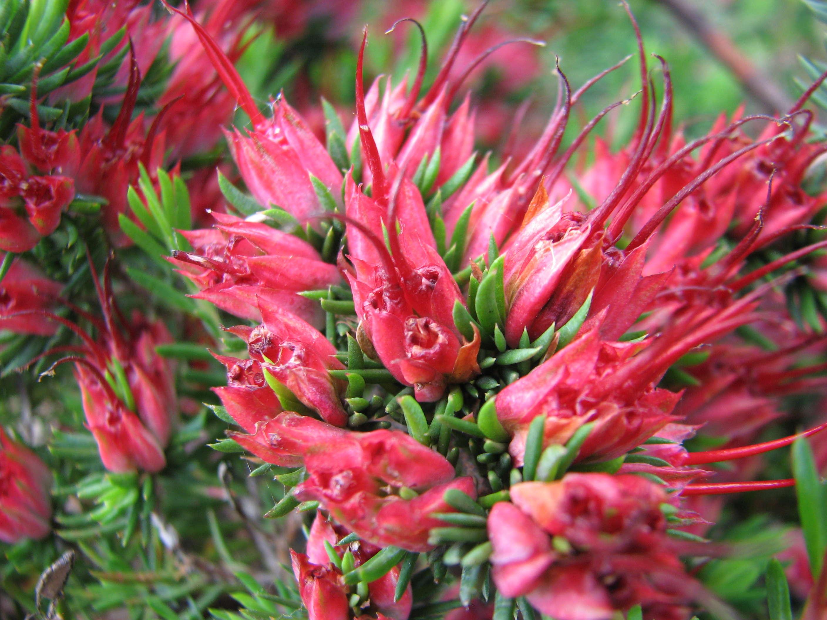 Darwinia grandiflora (cultivated, labelled) , Royal Botanic Gardens Cranbourne, Victoria, Australia